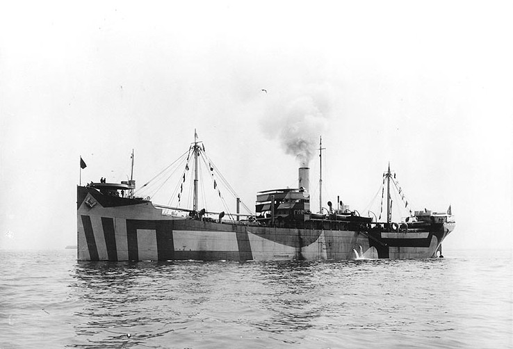 Commercial cargo ship SS Aniwa on builder's trials off California, the day before she was commissioned into the US Navy as USS Aniwa (ID-3146).